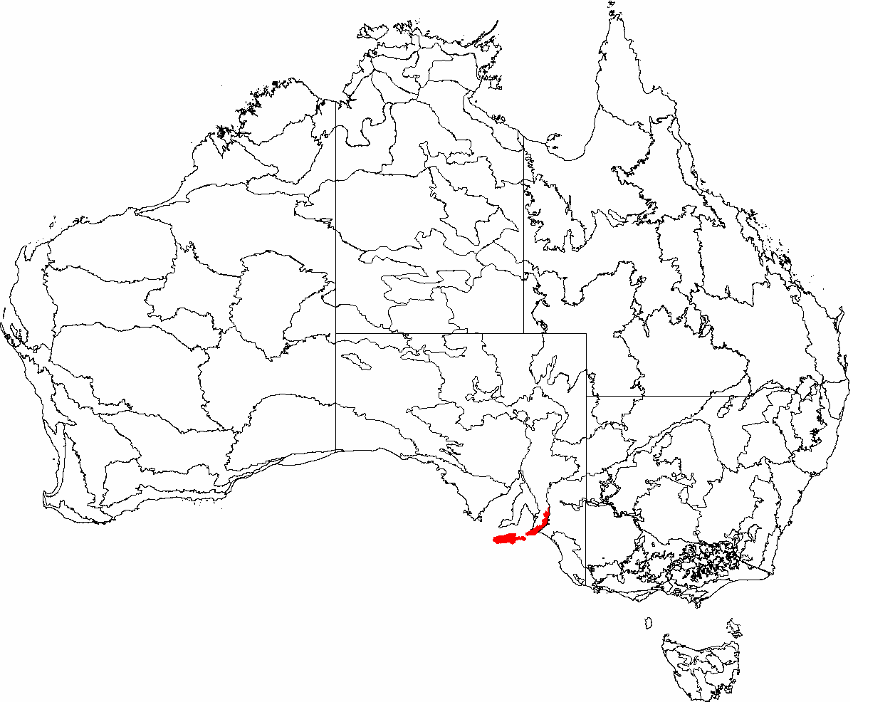 This is a map of the Interim Biogeographic Regionalisation of Australia (IBRA), with state boundaries overlaid. The Kanmantoo region is shown in red.